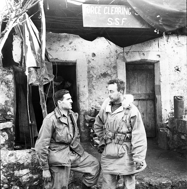 Canadians and Americans wear the same uniform in the First Special Service Force. Lieut. J. Kostelec (Calgary, AB) and Lieut. H.C. Wilson (Olympia, WA) resting on the steps of the Force's Clearing Station, near Venafro, Italy.